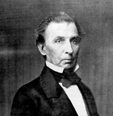 Collection: Brady (Mathew) Portraits Call number: PI/COL/1983.0026 System ID: 105527. Link to the catalog William L. Sharkey portrait. Please see our profile page for information on ordering. Scanned as tiff in 2011/04/19 by MDAH. Credit: Courtesy of the Mississippi Department of Archives and History